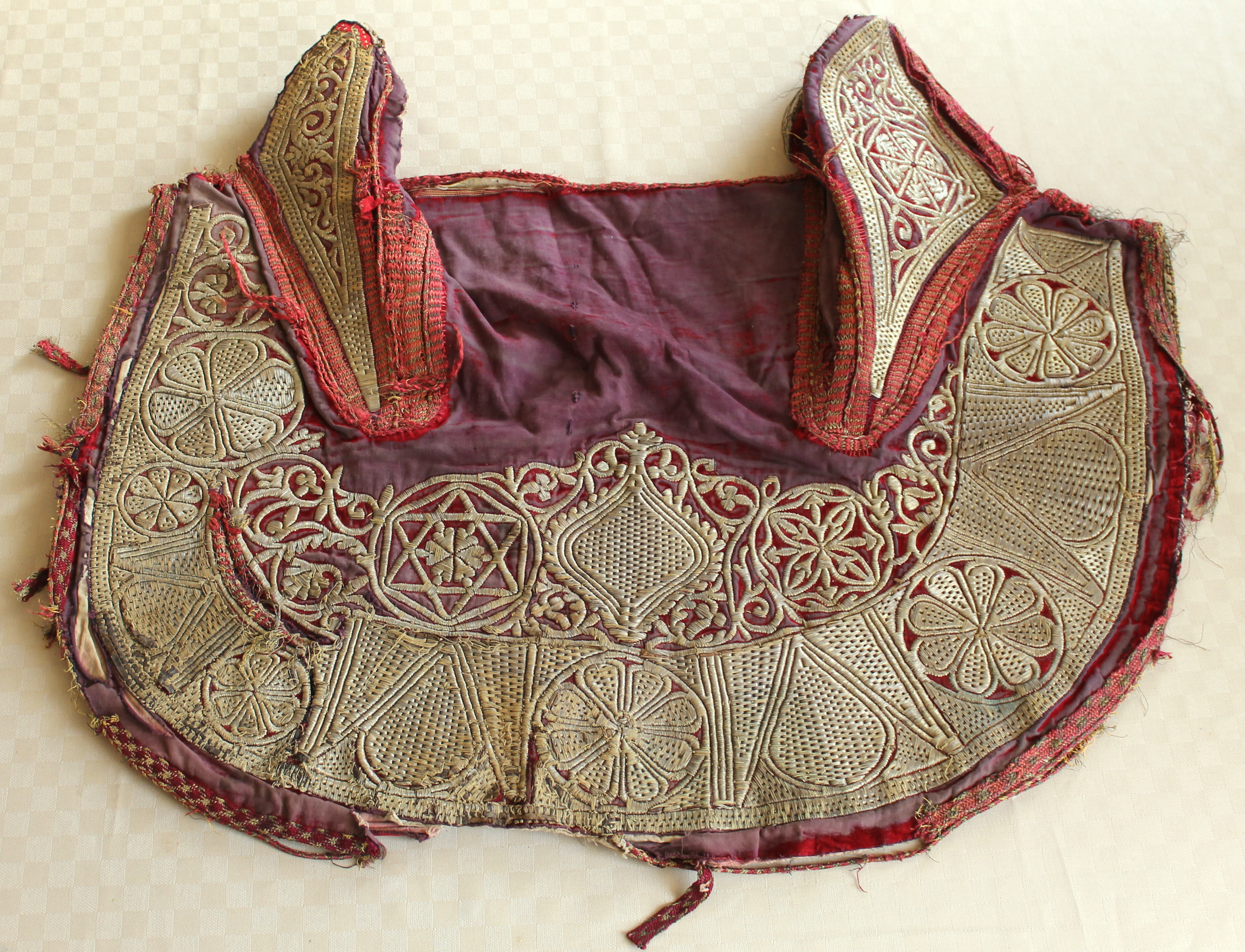 Horse cover embroidery and NOT a fly mask . Arts et traditions du Maroc " , 18th - 19th